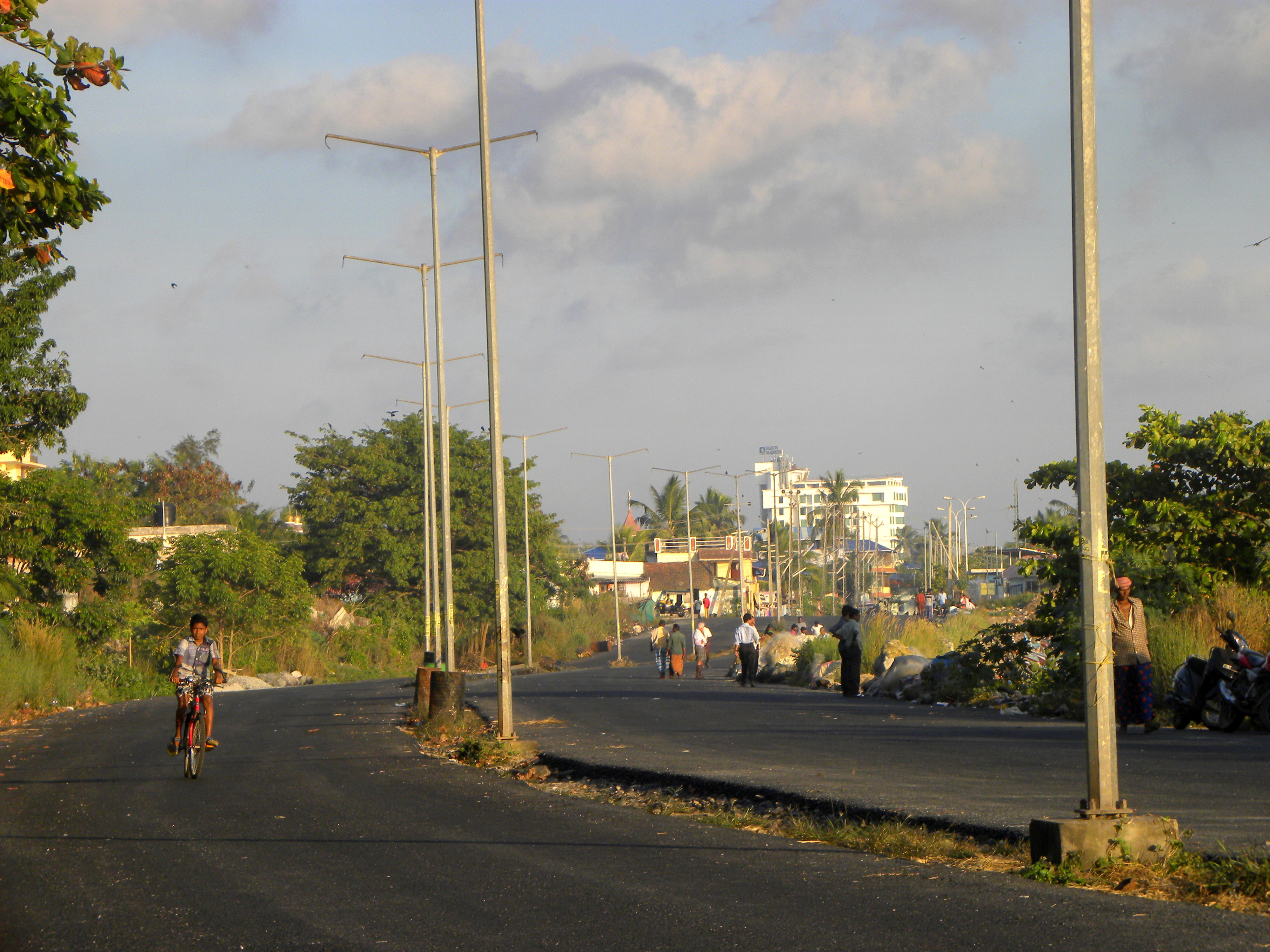 Port Road is an u/c 4-lane road in Kollam city, India